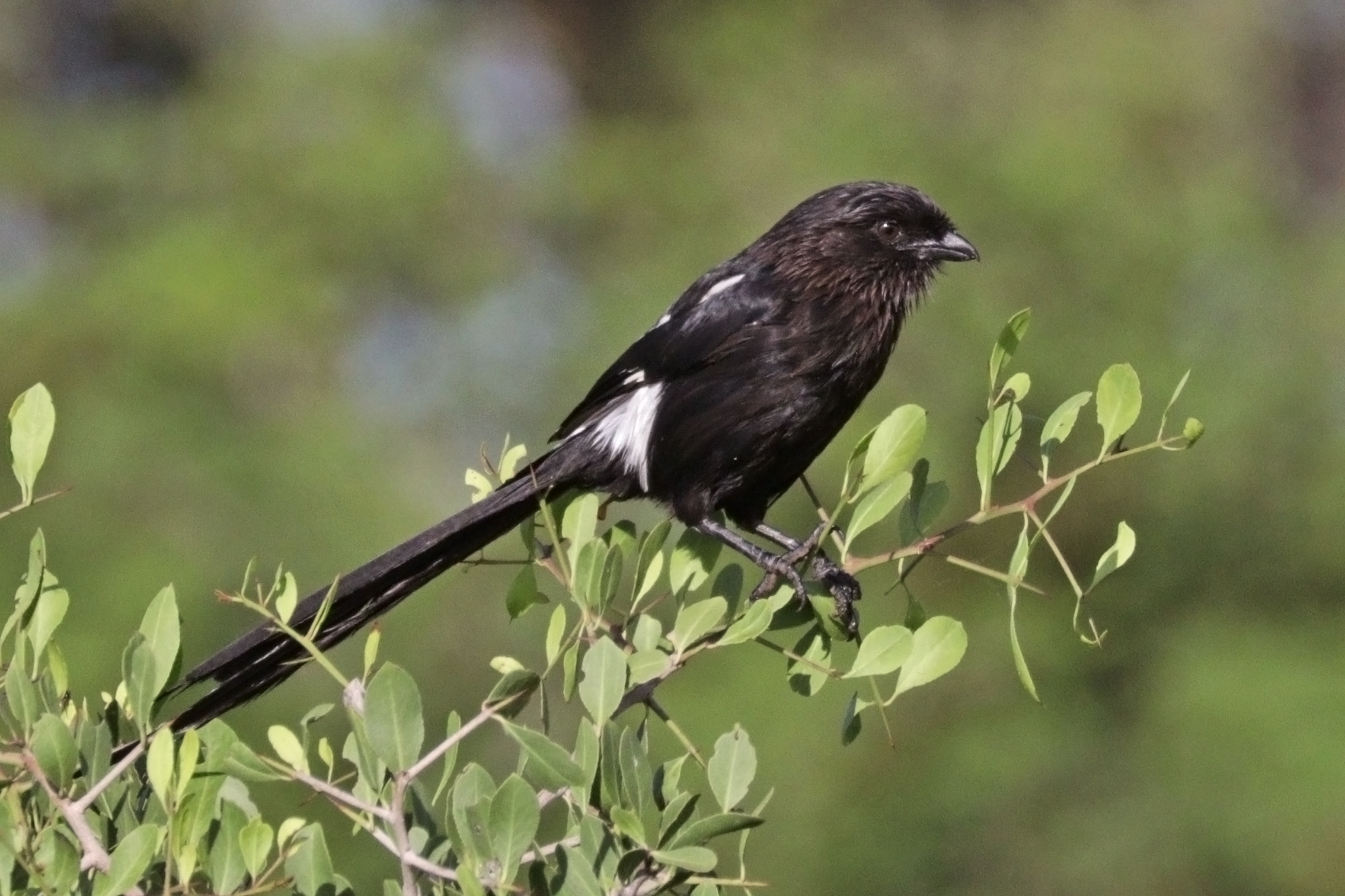 Magpie shrike (Urolestes melanoleucus melanoleucus), Nkasa Rupara National Park, Namibia